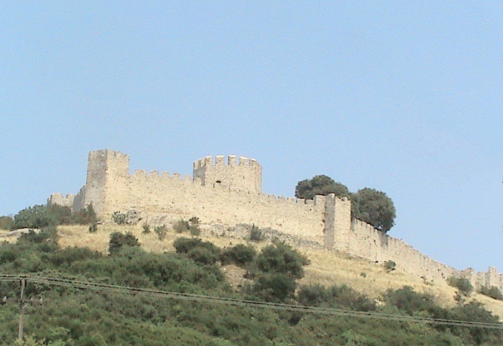 The Venetian castle of Platamon.